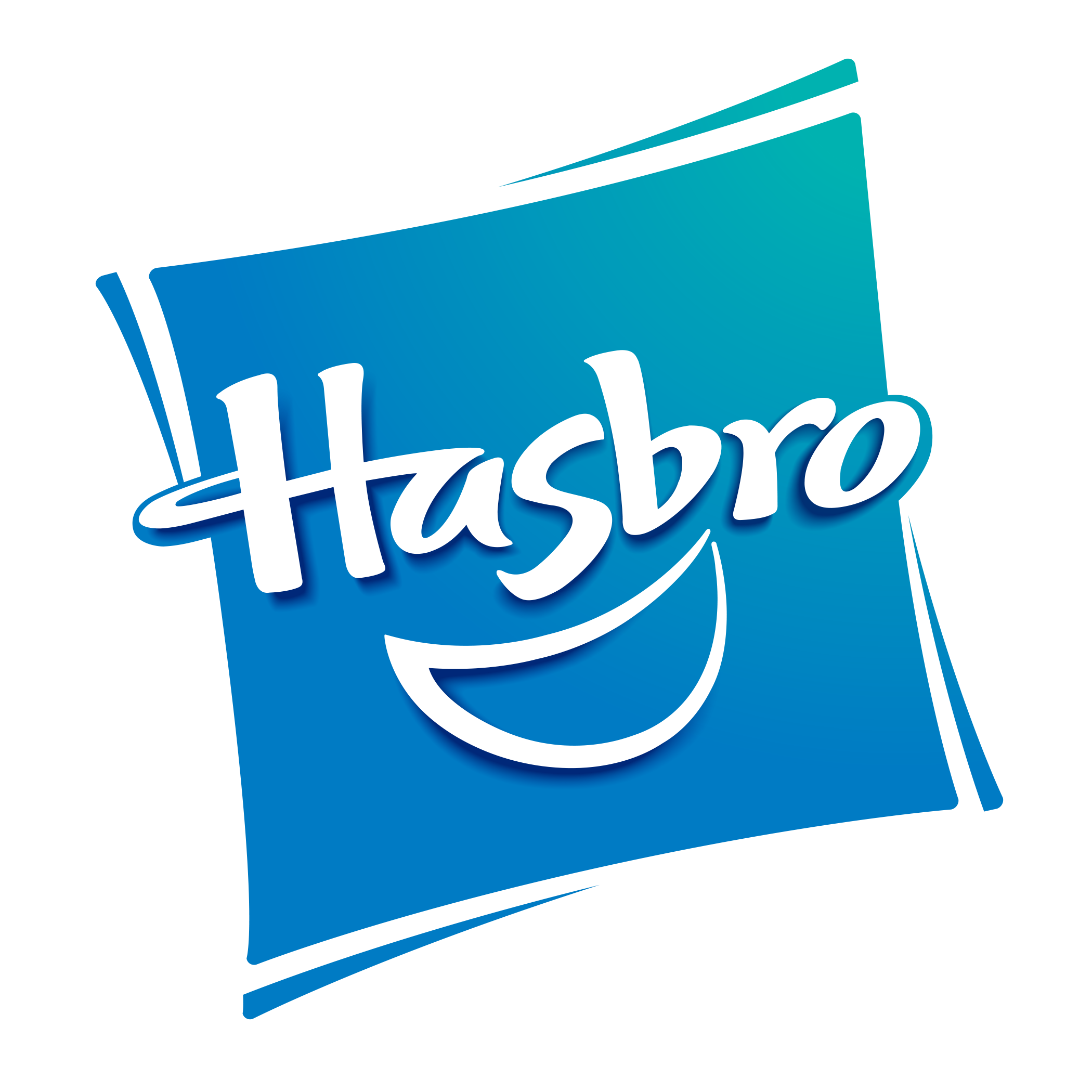 Hasbro Logo without Registration Mark